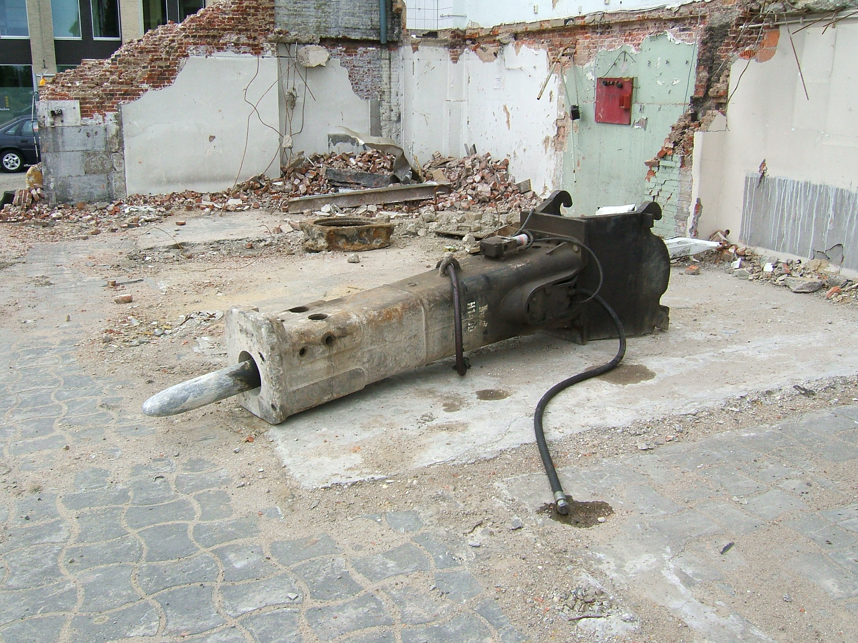 hydraulic breaker